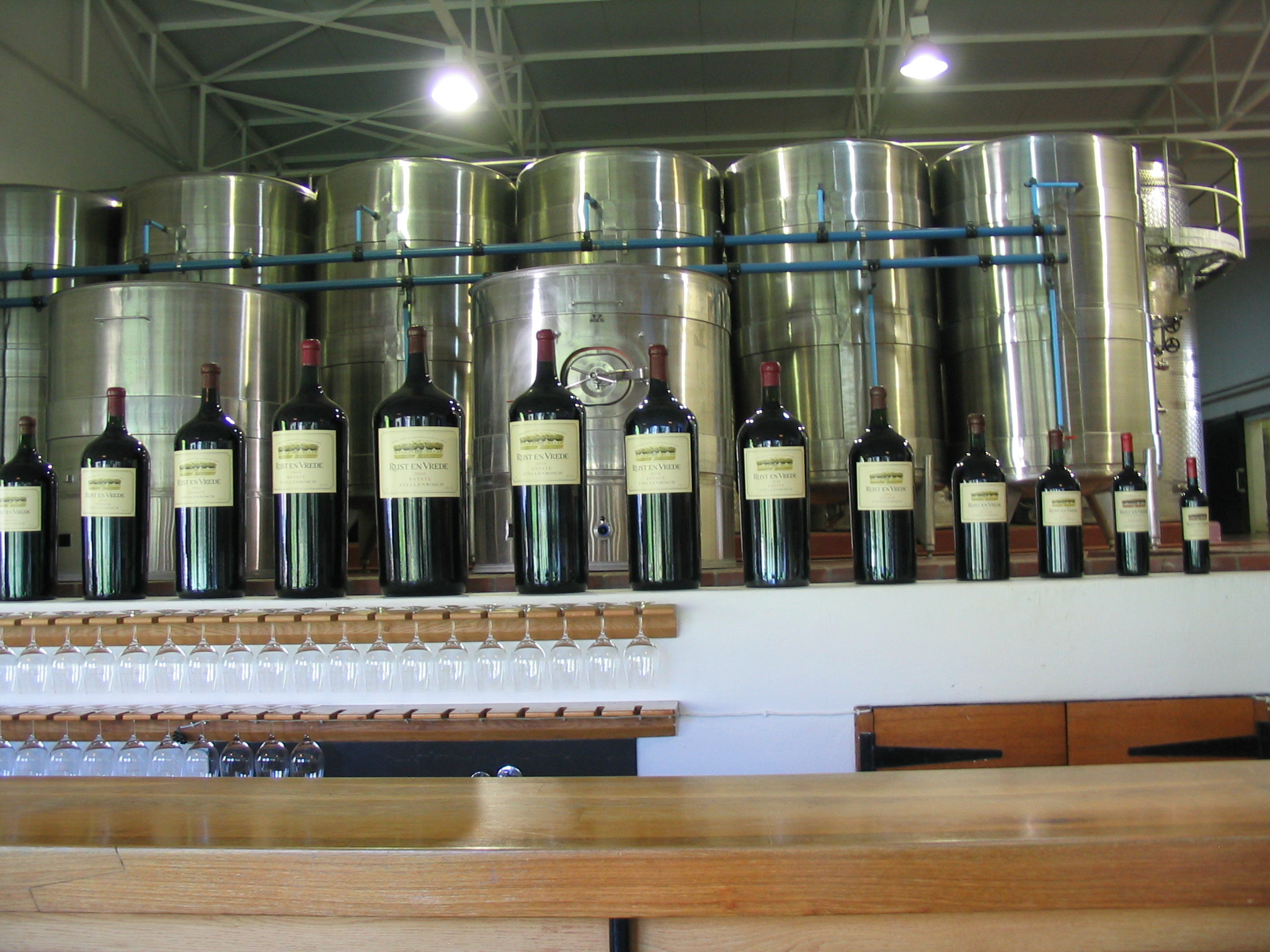 Stainless steel wine blending equipment (tanks) behind counter of Rust en Vrede wine tasting centre in Stellenbosch